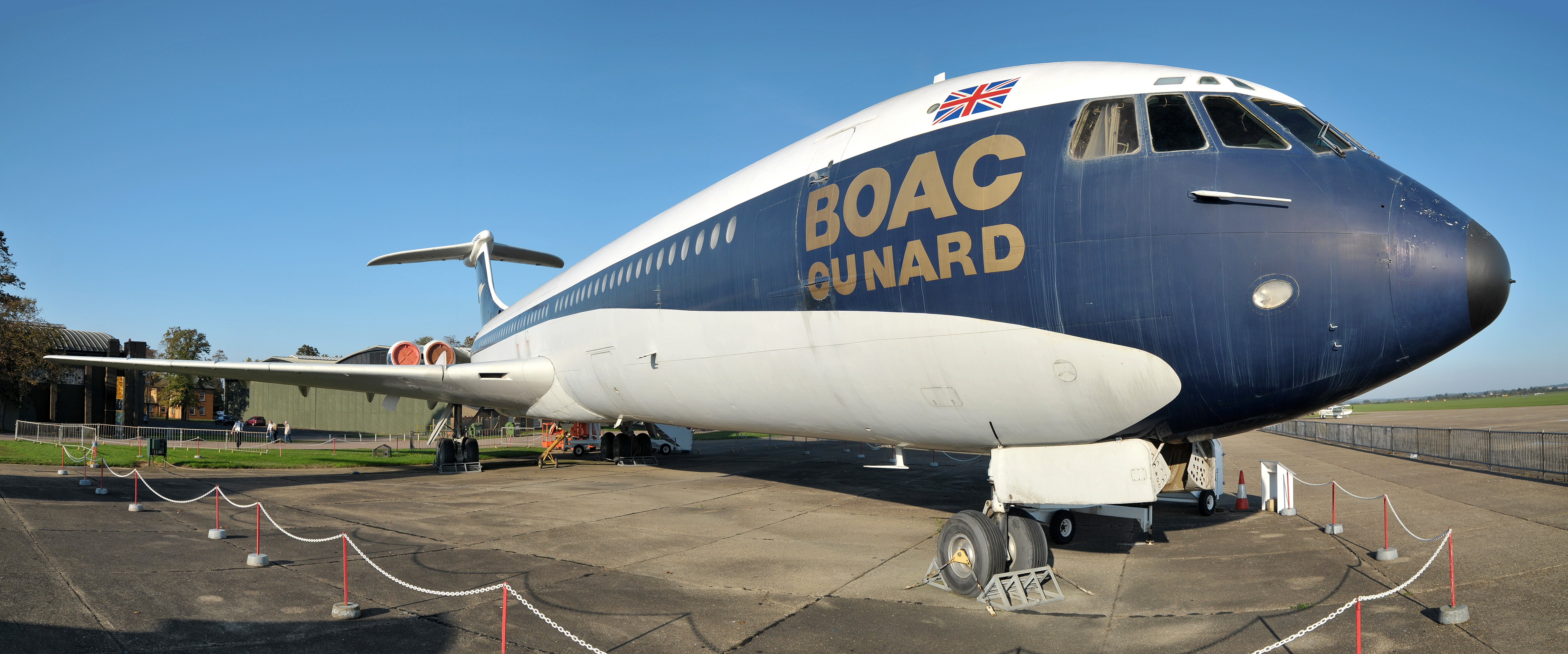 Vickers Super VC10 G-ASGC in classic BOAC Cunard color scheme. Picture taken on October 11th 2010 at the Imperial War Museum Duxford.